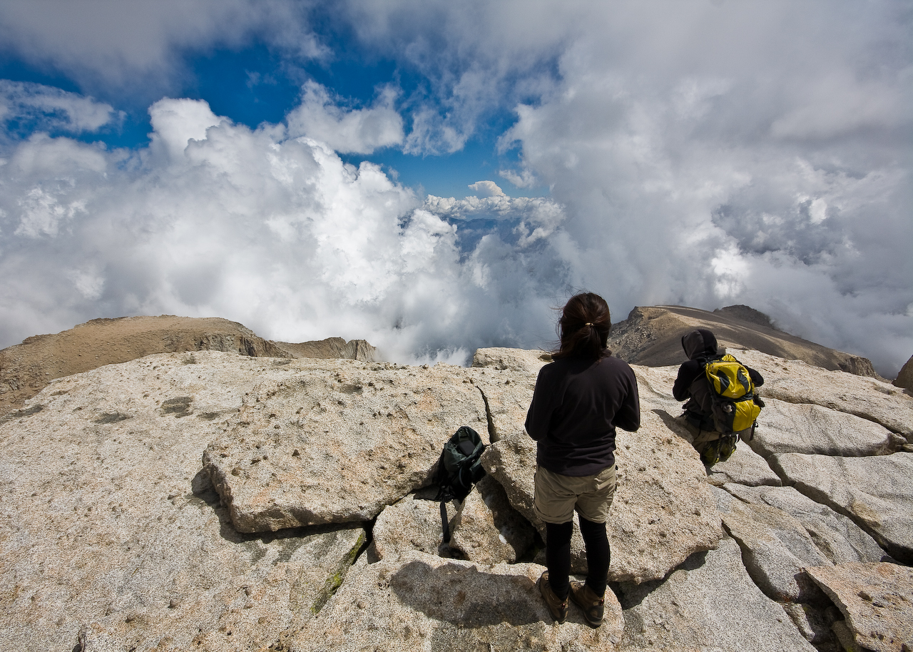 From the summit of Mount Langley, California (14,026 ft.).